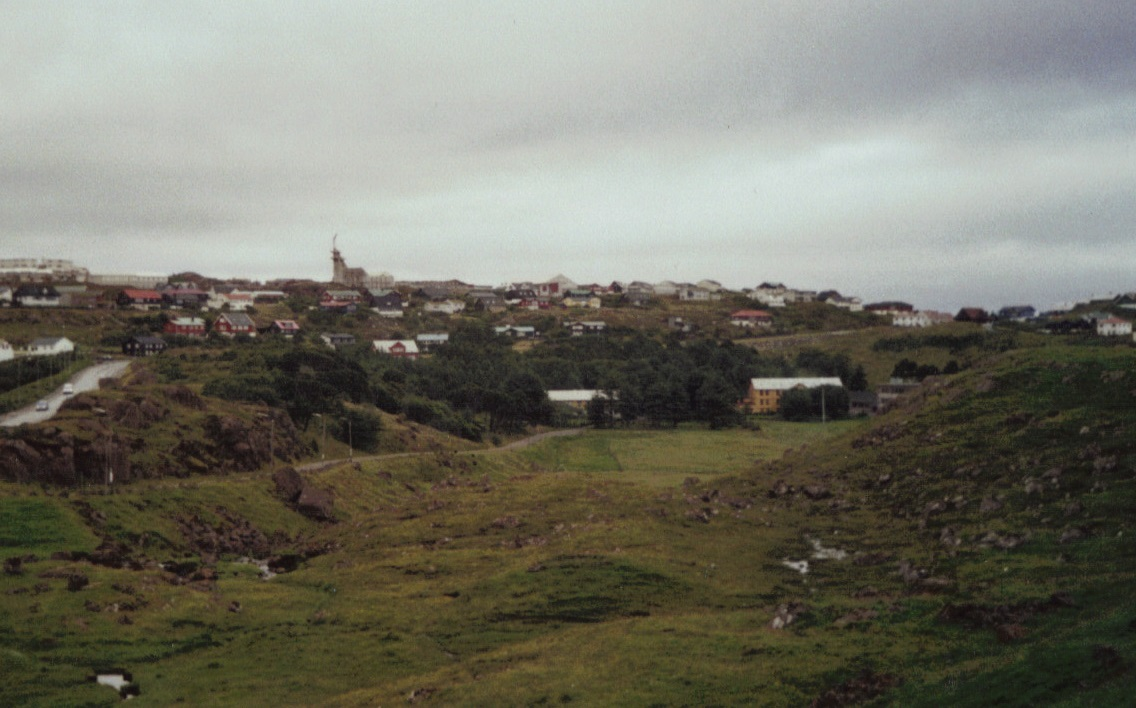 Valley of Hoydalar in Hoyvík, Faroe Island. You can see Hoydalsá stream in front and a park called Viðarlundin í Niðara Hoydali along with a school building of Føroya Studentaskúli (the yellow wooden one) more backwards. In the background, the church and houses from the village of Hoyvík are visible.